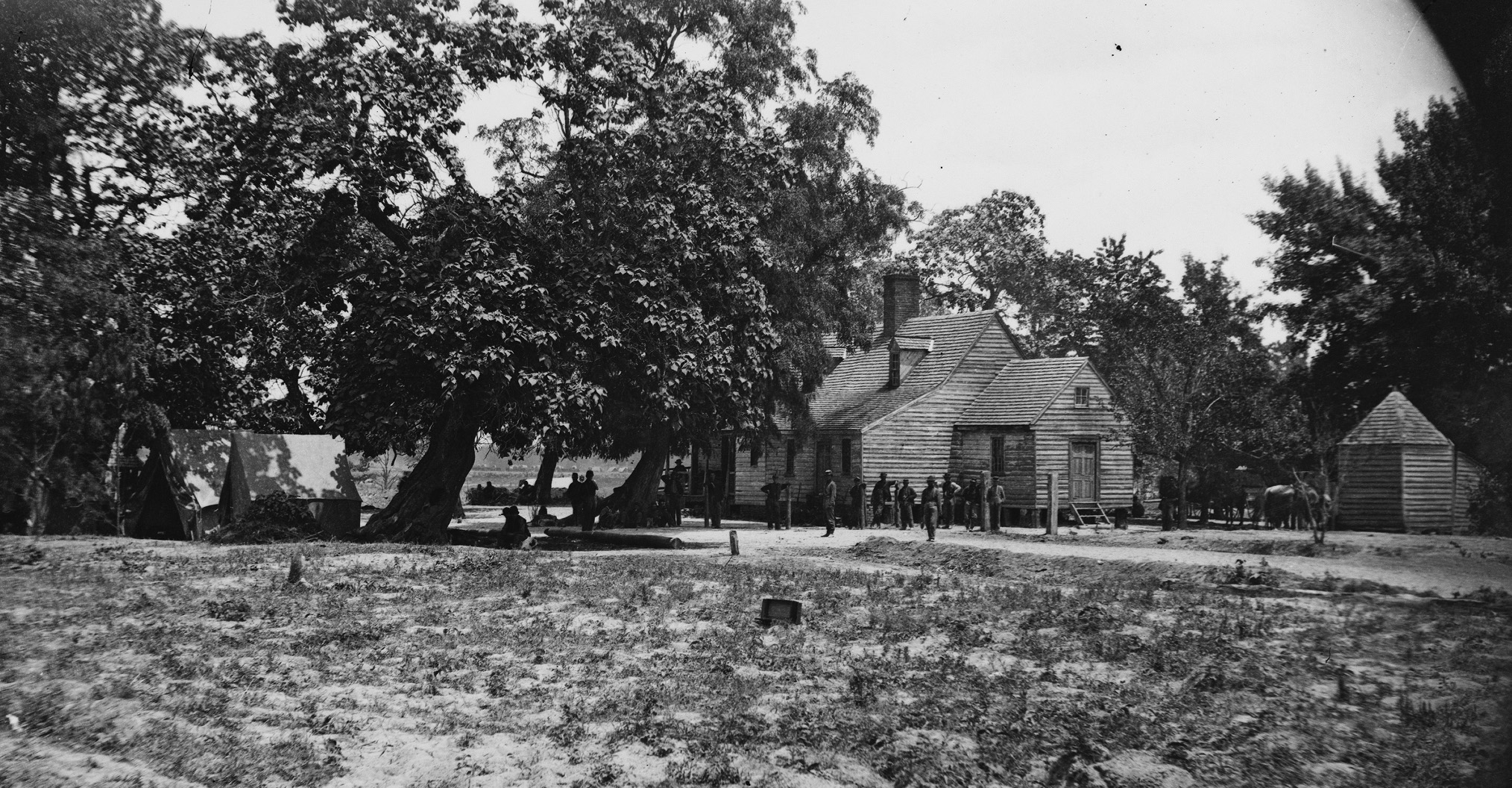 Photograph of the Burnett Inn at Cold Harbor, Virginia. Image cropped from a stereopticon photograph at the Library of Congress by Hal Jespersen. NOTES Title from Civil War caption books and Grant and Lee / William Frassanito. New York: Charles Scribner's Sons, 1983. Caption from negative sleeve: Cold Harbor, Va., June 4th, 1864. Annotation from negative, stereo label: Miller, vol. 4, P. 245. Corresponding print is in LOT 4165-G. Forms part of Civil War glass negative collection (Library of Congress). MEDIUM 1 negative : glass, stereograph, wet collodion. CALL NUMBER LC-B815- 771 REPRODUCTION NUMBER LC-DIG-cwpb-00374 DLC (digital file from original neg.) SPECIAL TERMS OF USE No known restrictions on publication. REPOSITORY Library of Congress Prints and Photographs Division Washington, D.C. 20540 USA DIGITAL ID (digital file from original neg.) cwpb 00374